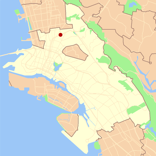 Map showing the location of Rockridge in the city of Oakland, California. Created by User:Nogood using U.S. Census Bureau data.